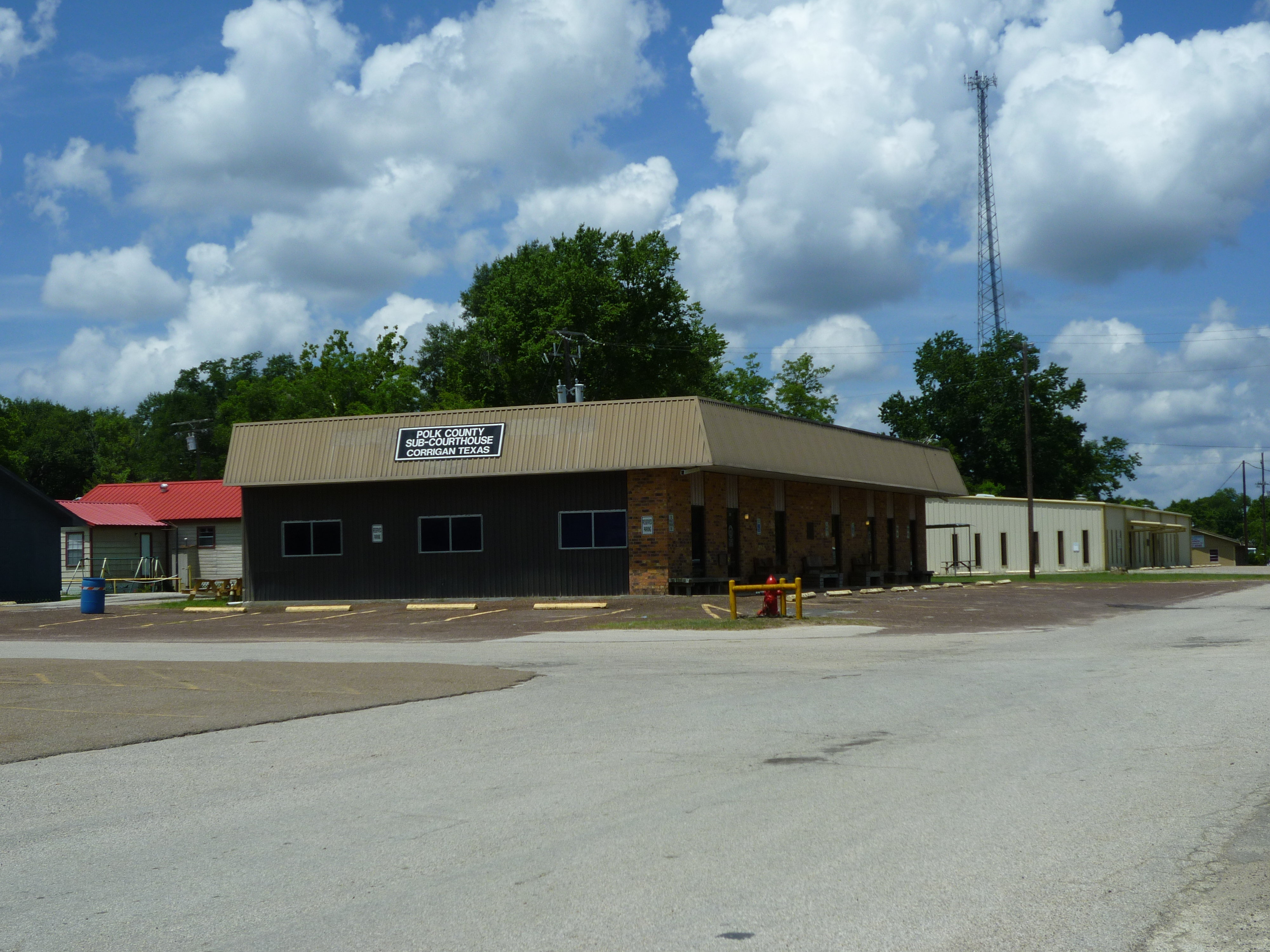 Polk County Sub-Courthouse.